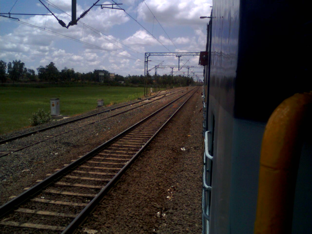 Railway tracks near New Guntur railway station